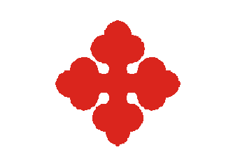 XVIII Corps, Army of the James, 1st Division Badge